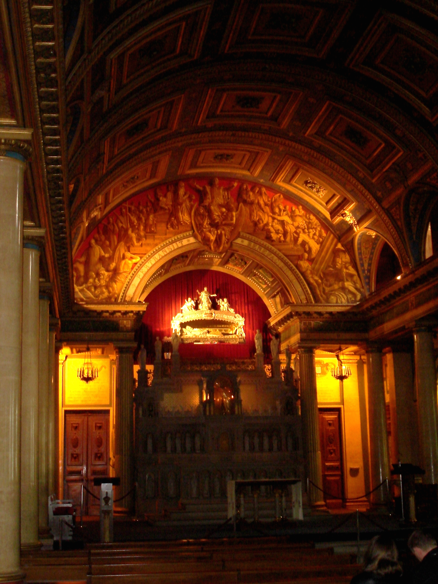 Chapelle Saint Vincent de Paul: Altar and reliquary.